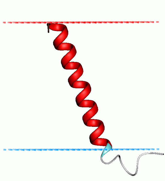 NMR structure of the pulmonary surfactant-associated polypeptide SP-C Protein image from OPM database